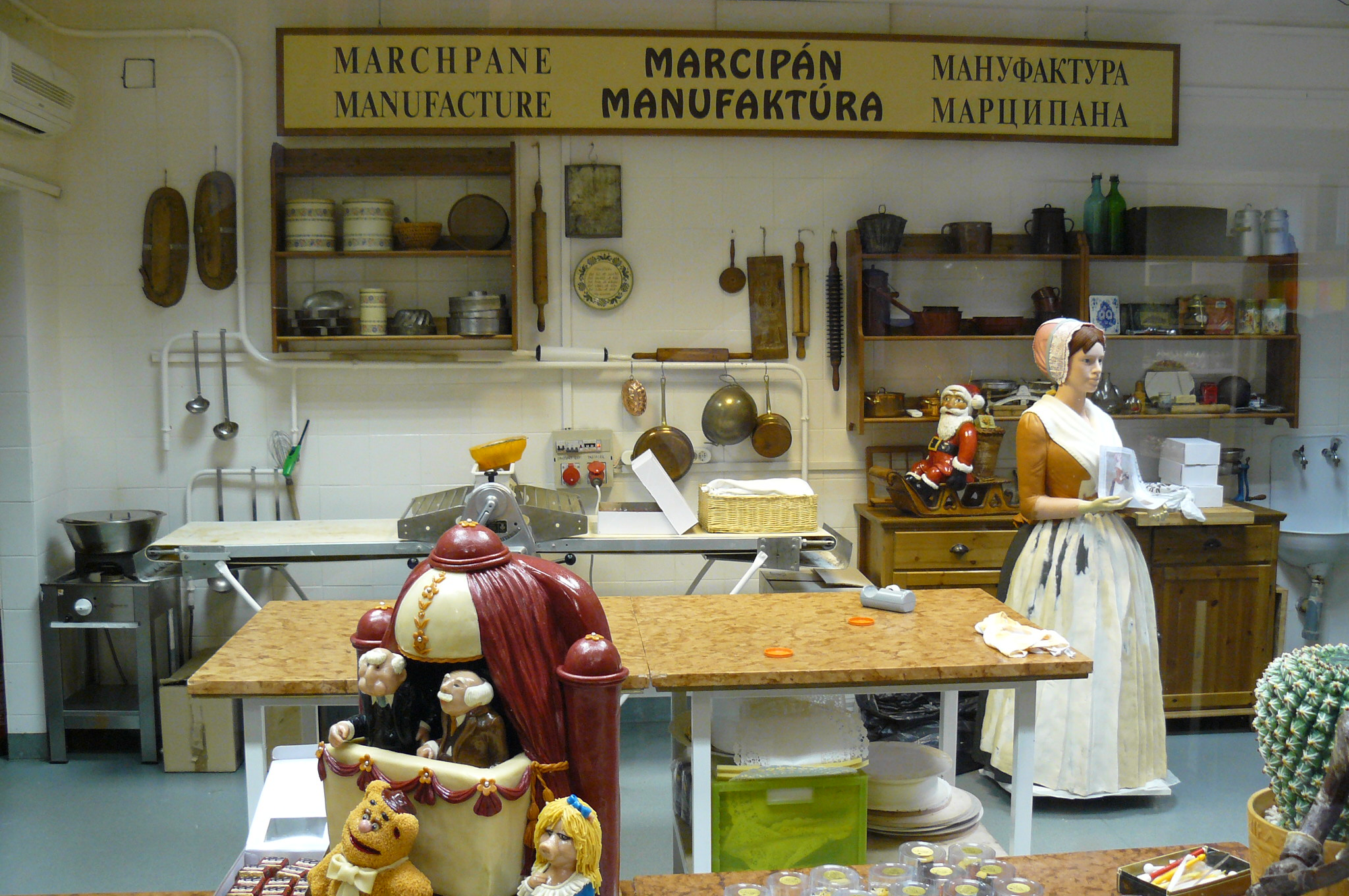 Museum of Marcepan - Szentendre, HU.